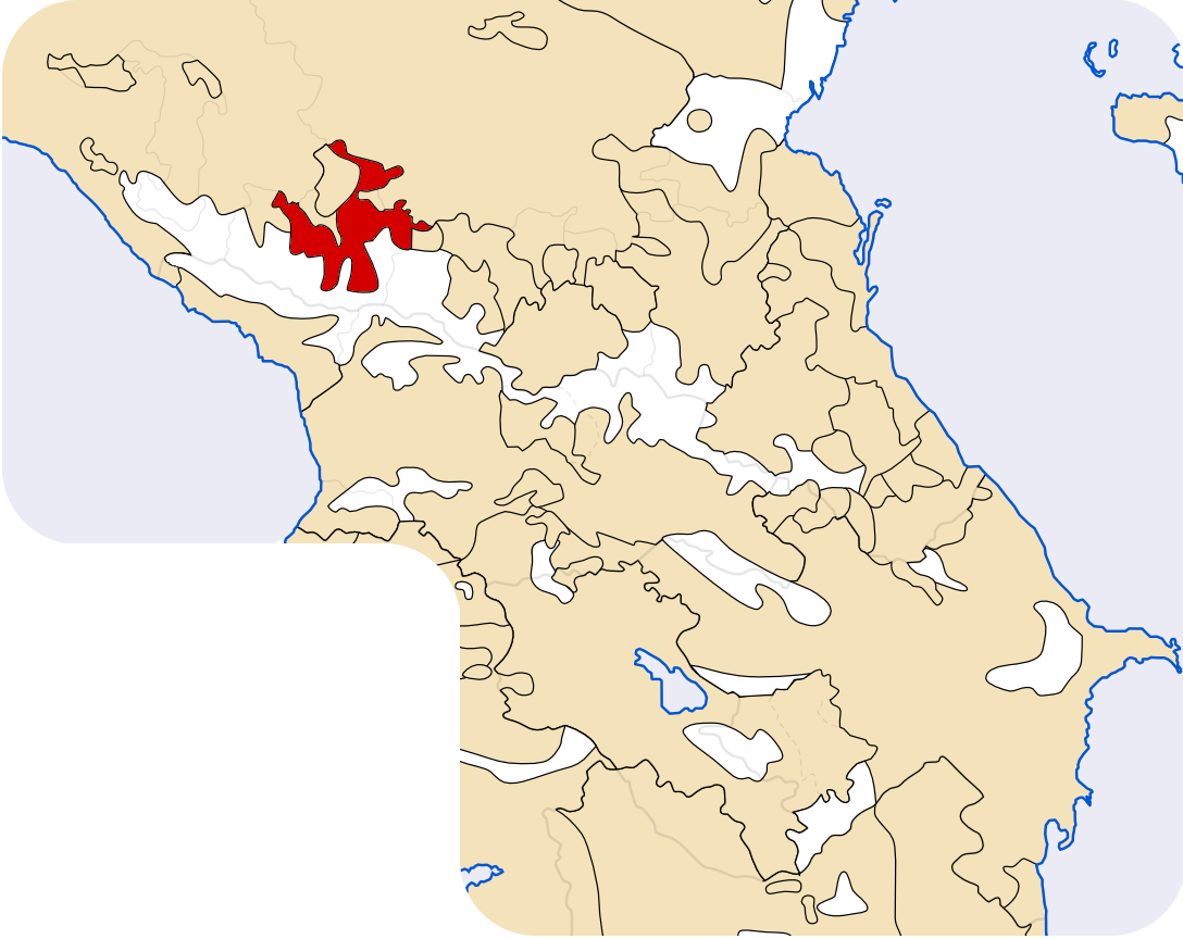 Location map of the Karachays.